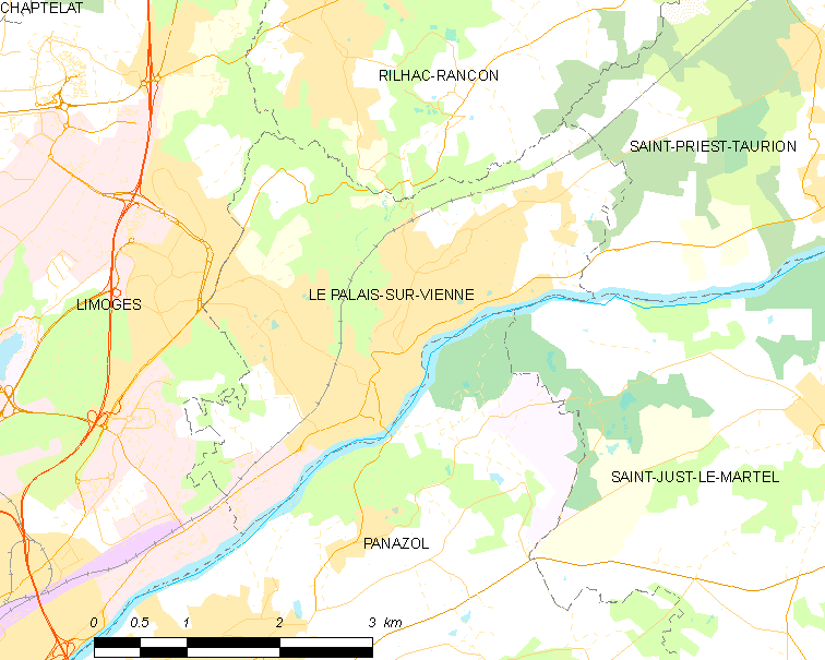 Map of French municipality Le Palais-sur-Vienne